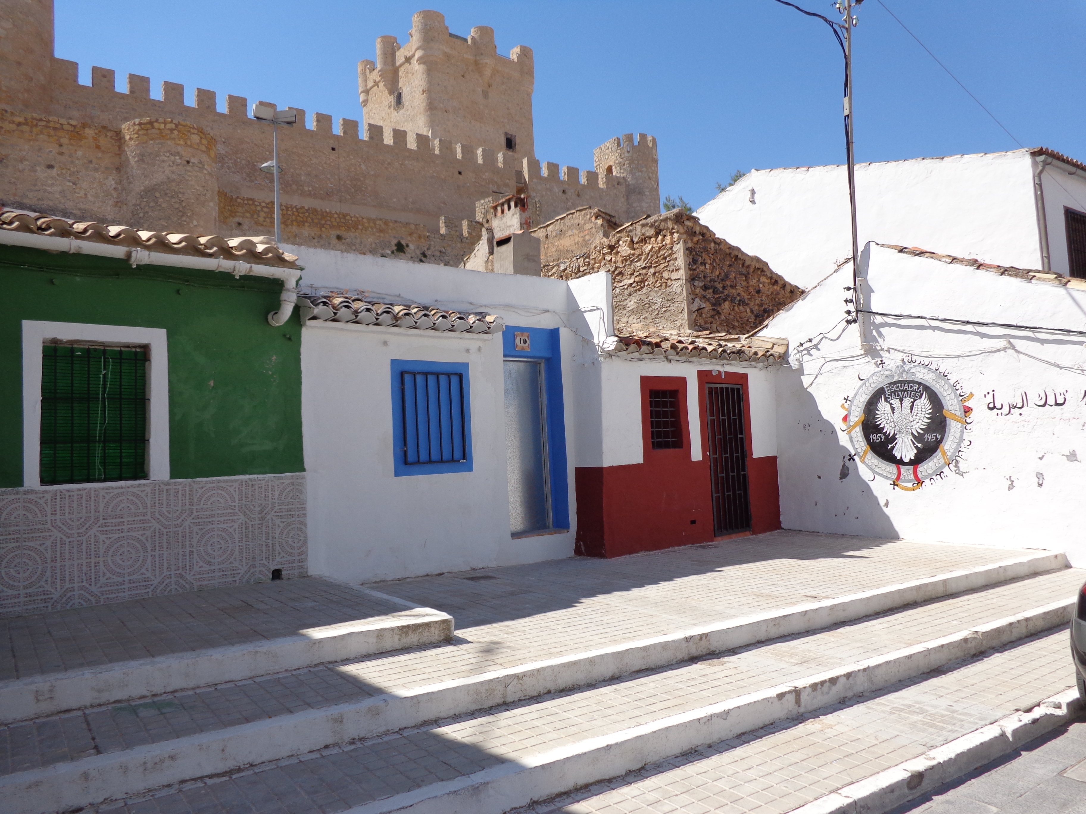 Historical centre of Villena, Spain